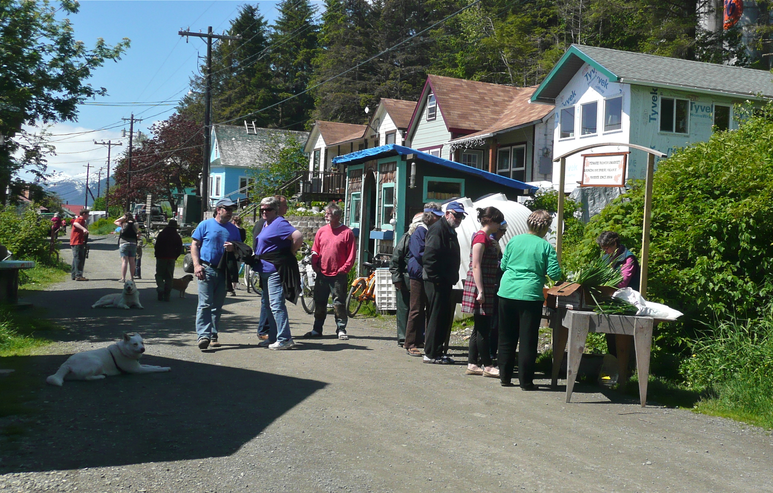 Tenakee Springs Farmers Market. Every Saturday for an hour.